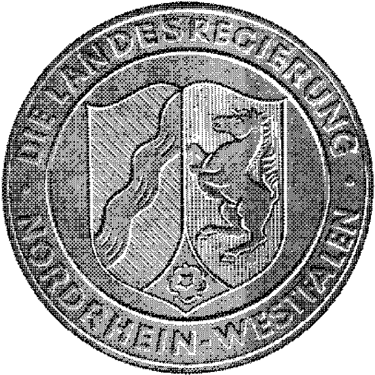 Great seal of the state of North Rhine-Westphalia.